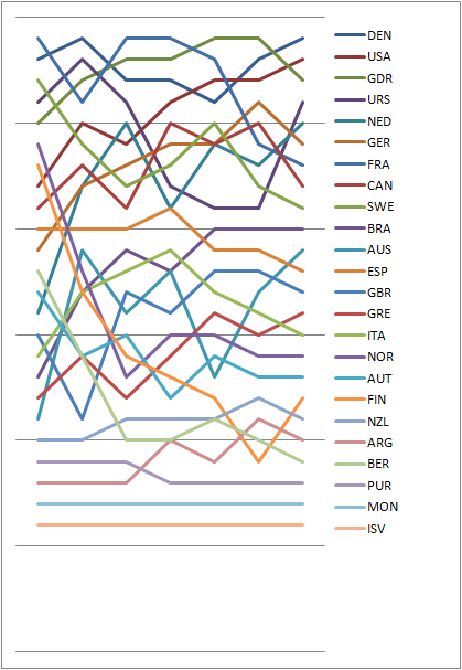 1976 SOLING Daily standings during the Olympic sailing event